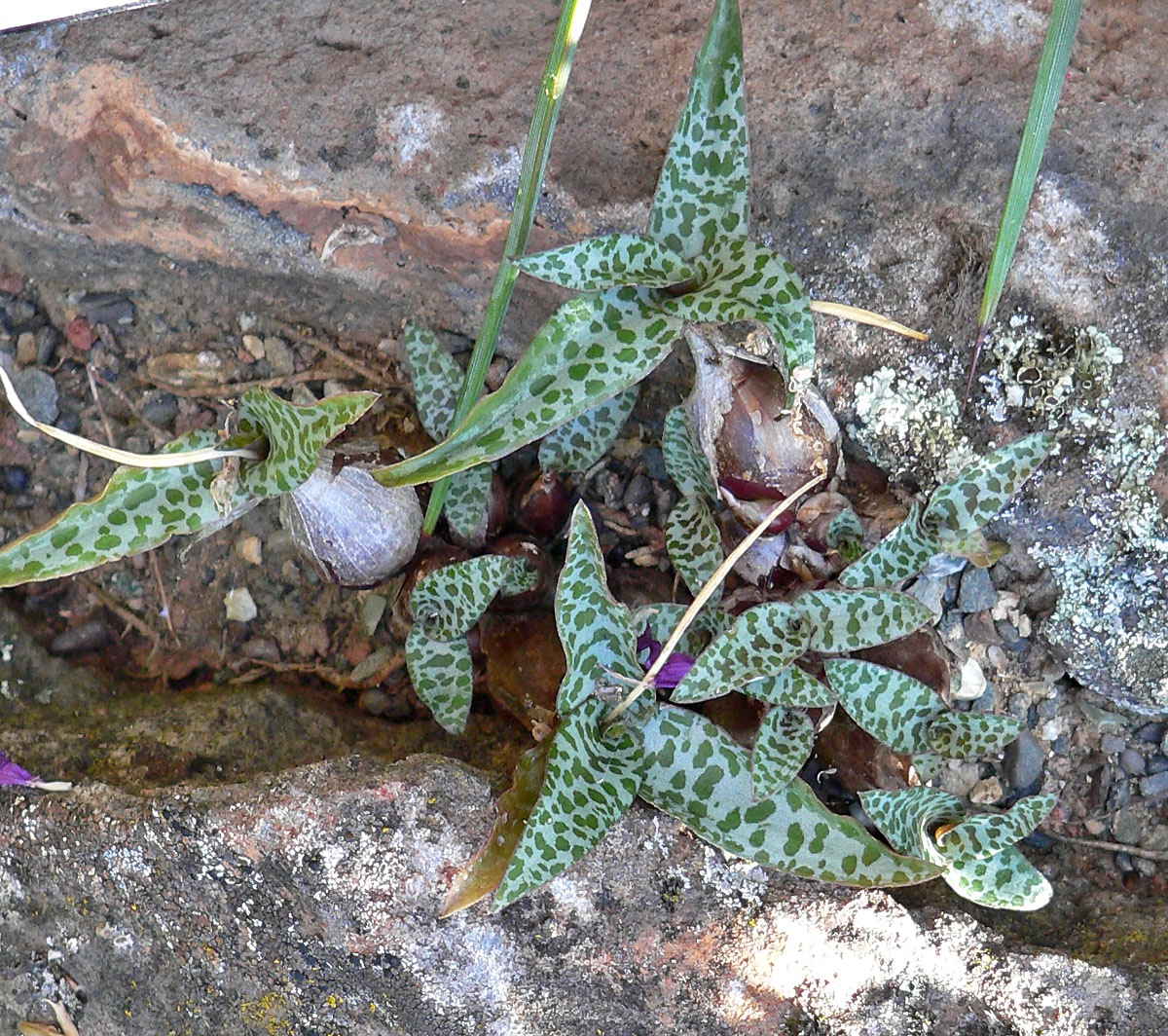 Ledebouria socialis at the University of California Botanical Garden, Berkeley, California